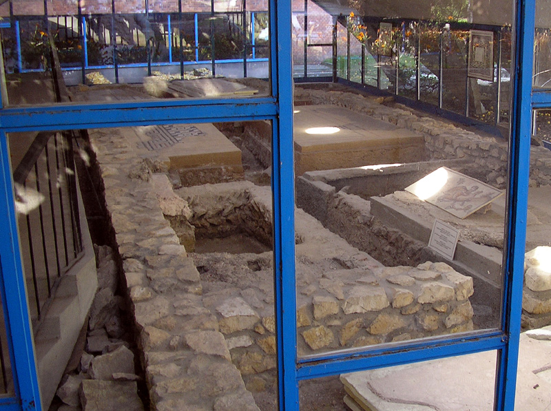 The Roman archaeological park Herkules-villa in Budapest, Hungary.